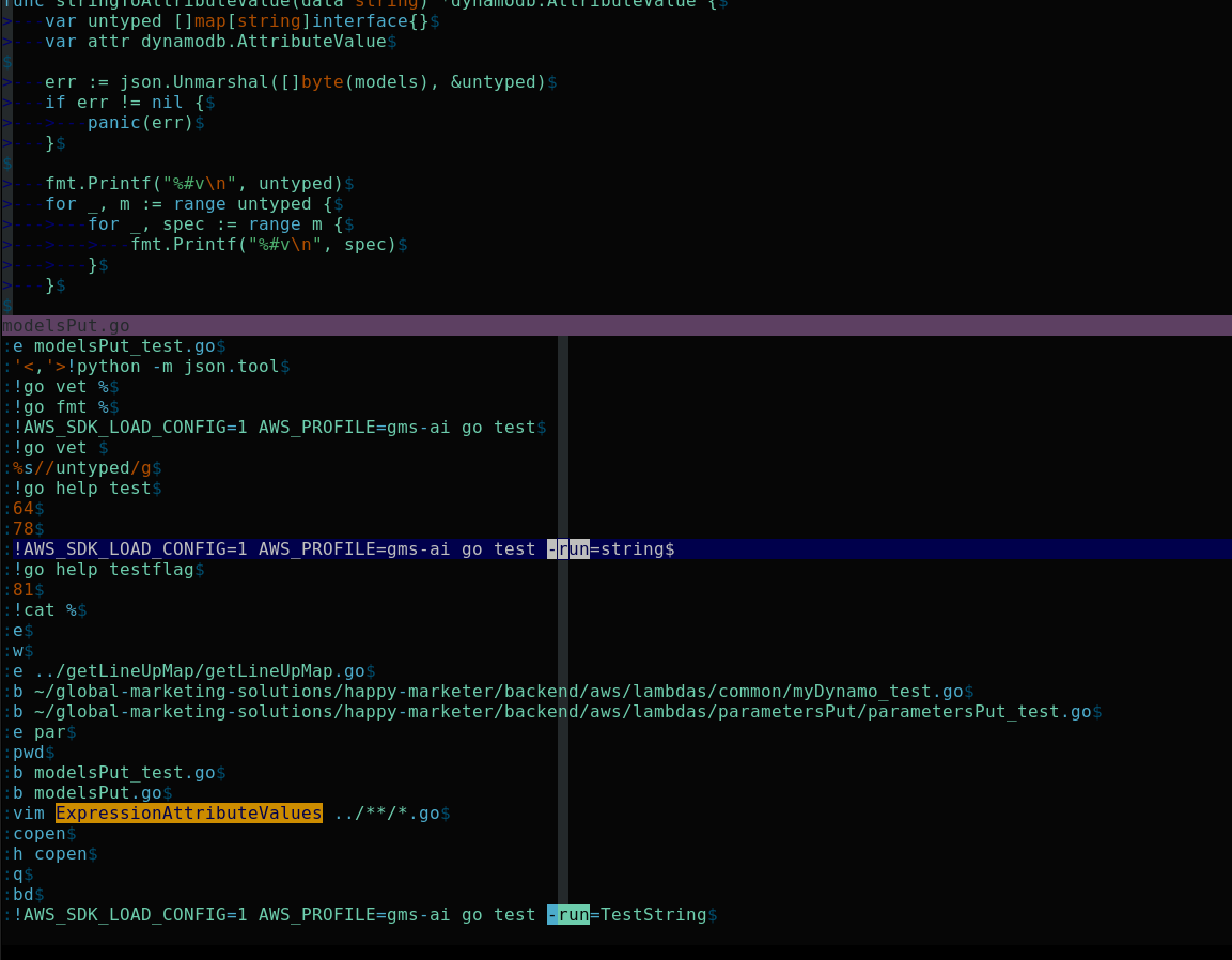 Command history called by q: Vim 8.2